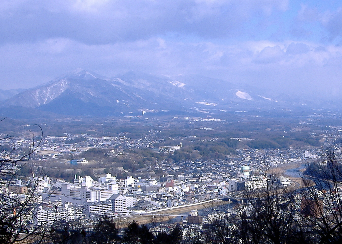 Picture of Tsuyama City taken by me on 9th February 2006. To be added to the Tsuyama, Japan entry.